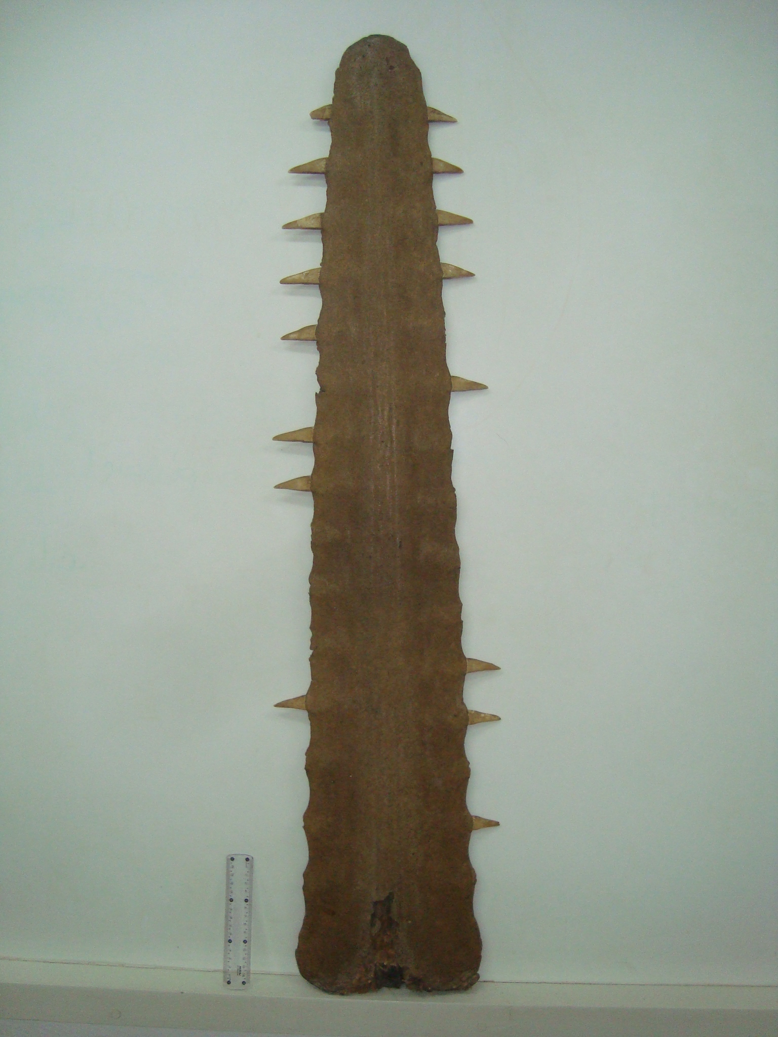 Rostrum of a saw fish (Pristis perotteti, family Pristidae). Part of the zoological collection of the Federal University of Viçosa (UFV). Viçosa, Brazil.